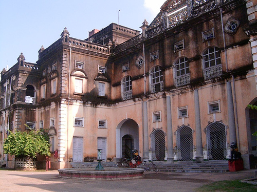 Palace in Bhawanipatna, Kalahandi district, India